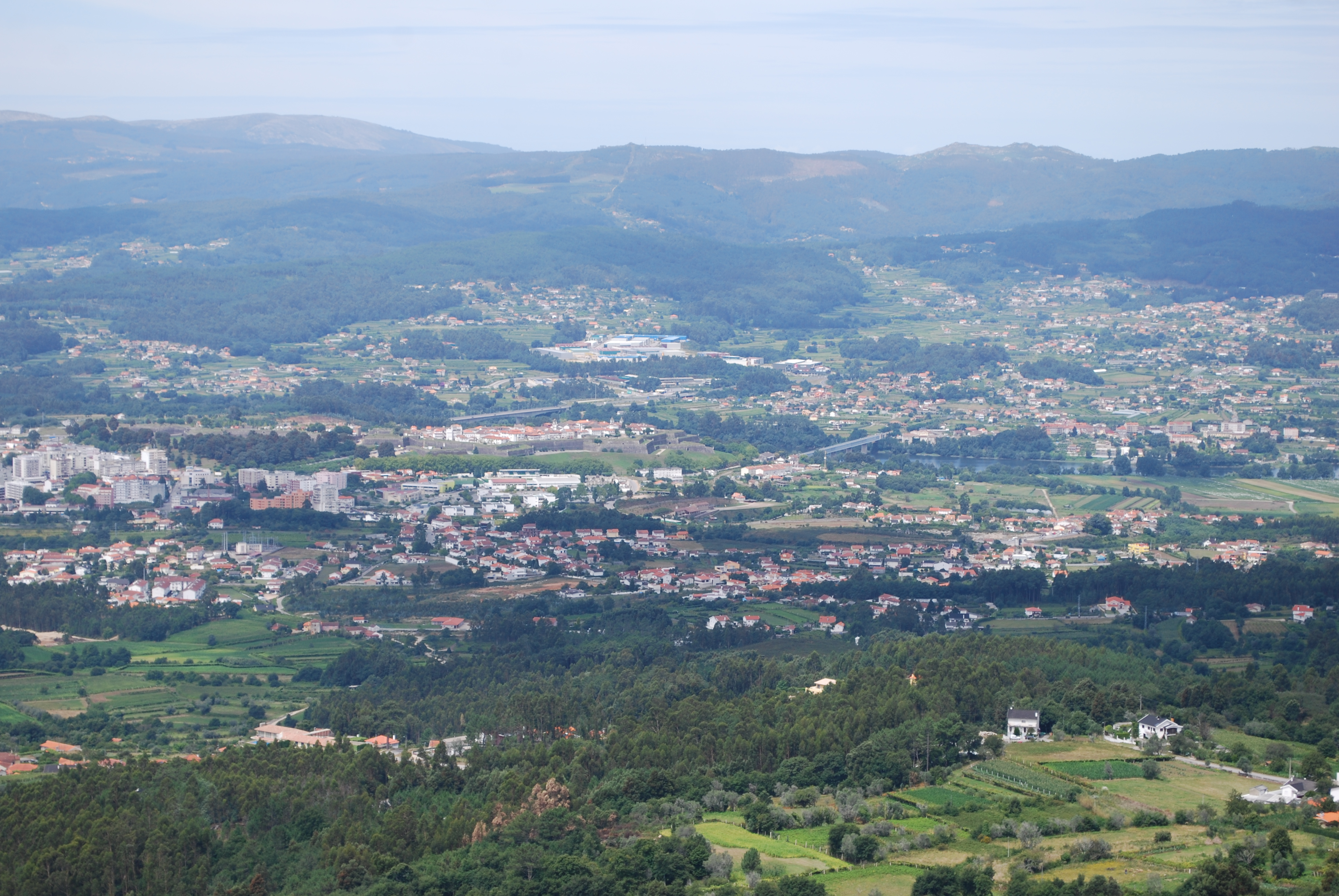 This file was uploaded for Wiki Loves Monuments in Portugal with the unique identifier 70235.